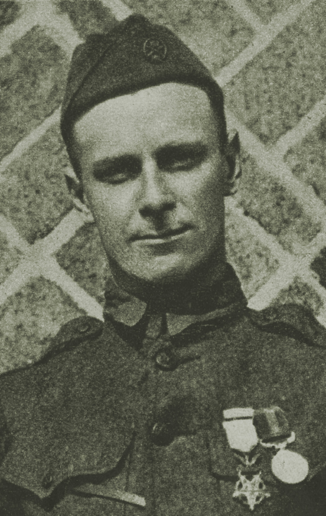 Sgt. John Cridland Latham (1888-1975), American Congressional Medal of Honor recipient in World War I.